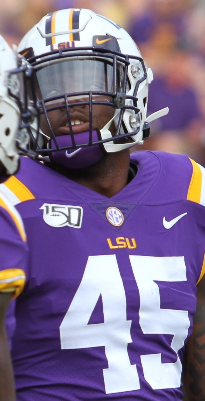 Patrick Queen, #8, and Michael Divinity, Jr. #45, LSU Tigers vs Northwestern LA Demons, September 14, 2019, Tiger Stadium, Baton Rouge, Louisiana, Tammy Anthony Baker, Photographer @tabinla @tmabaker @Patrickqueen_ @Tht_Boy_Mike